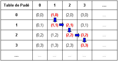 Padé table showing how Lagrange build à sequence of rational fraction to approximate the exponential function.